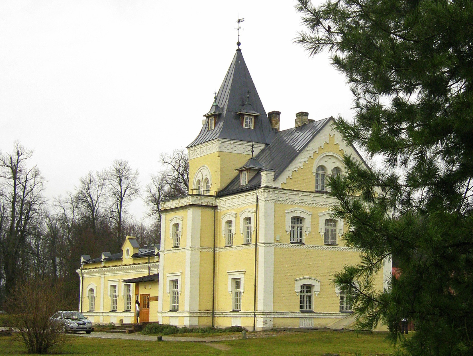 Dole Manor - Daugava MuseumLatviešu: Doles muižas pils - Daugavas muzejs